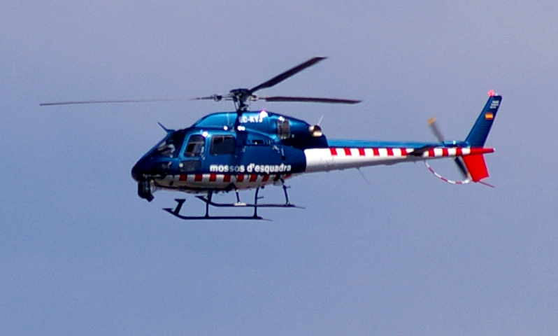 Helicopter of Catalan police (Mossos d'Esquadra)